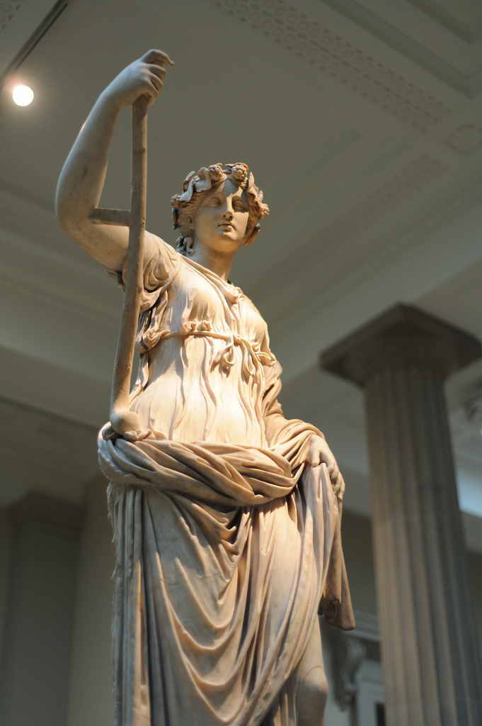 This statue dedicates to Minerva, the Roman goddess of poetry, medicine, wisdom, commerce, weaving, crafts, magic.